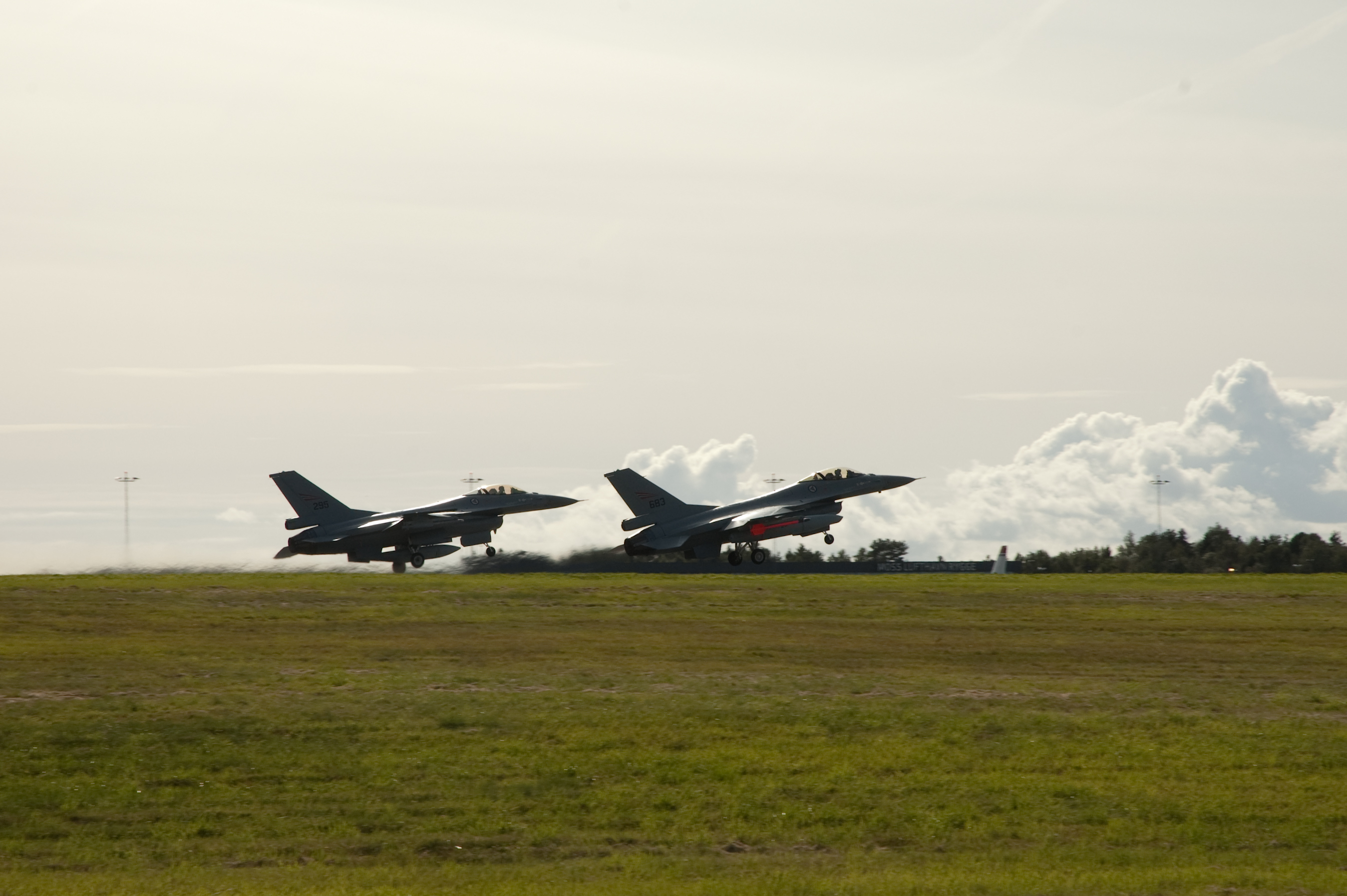 Two F-16 Fighting Falcons taking off from Rygge Air Station at the Rygge Air Show in 2009